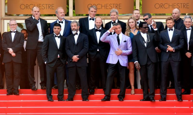 The cast of "The Expendables 3" at the Cannes Film Festival